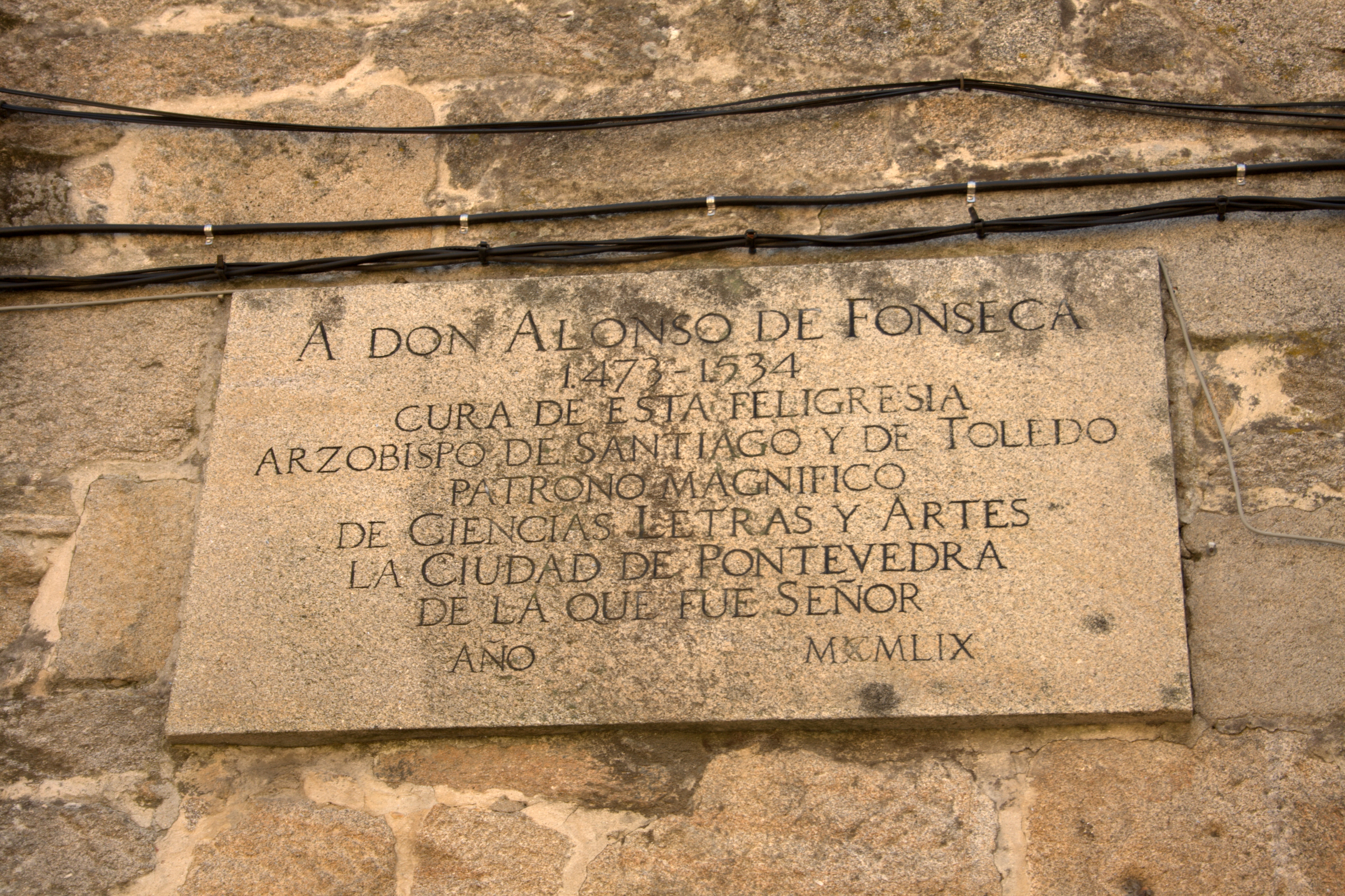 The title is wrong. It´s a sing in a facade of a building, in front of Saint Mary Church, in Pontevedra. It´s a memory sign about Don Alonso de Fonseca, who was priest in this place.